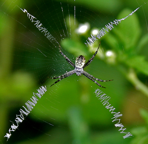 Grass cross spider Argiope catenulata at Ananthagiri Hills, in Rangareddy district of Andhra Pradesh, India.